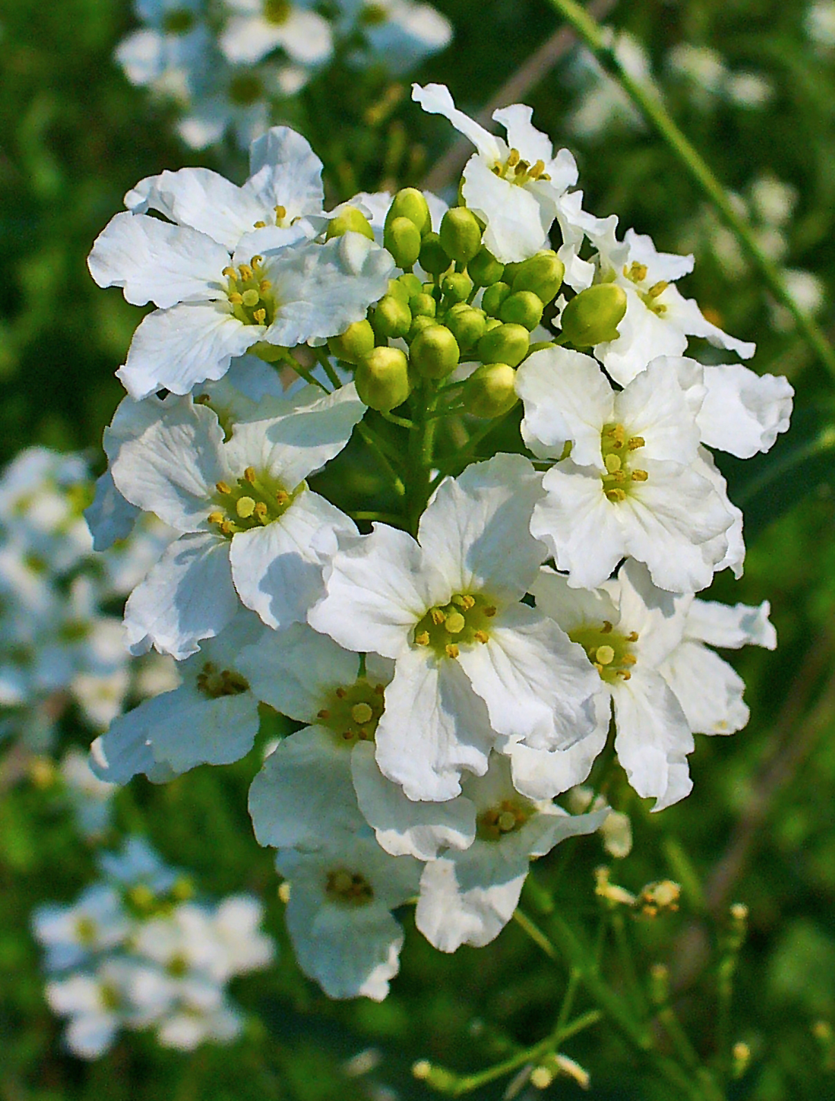 Armoracia rusticana, Brassicaceae, Horseradish, inflorescence; Karlsruhe, Germany. The fresh rootstock is used in homeopathy as remedy: Armoracia (Coch.)